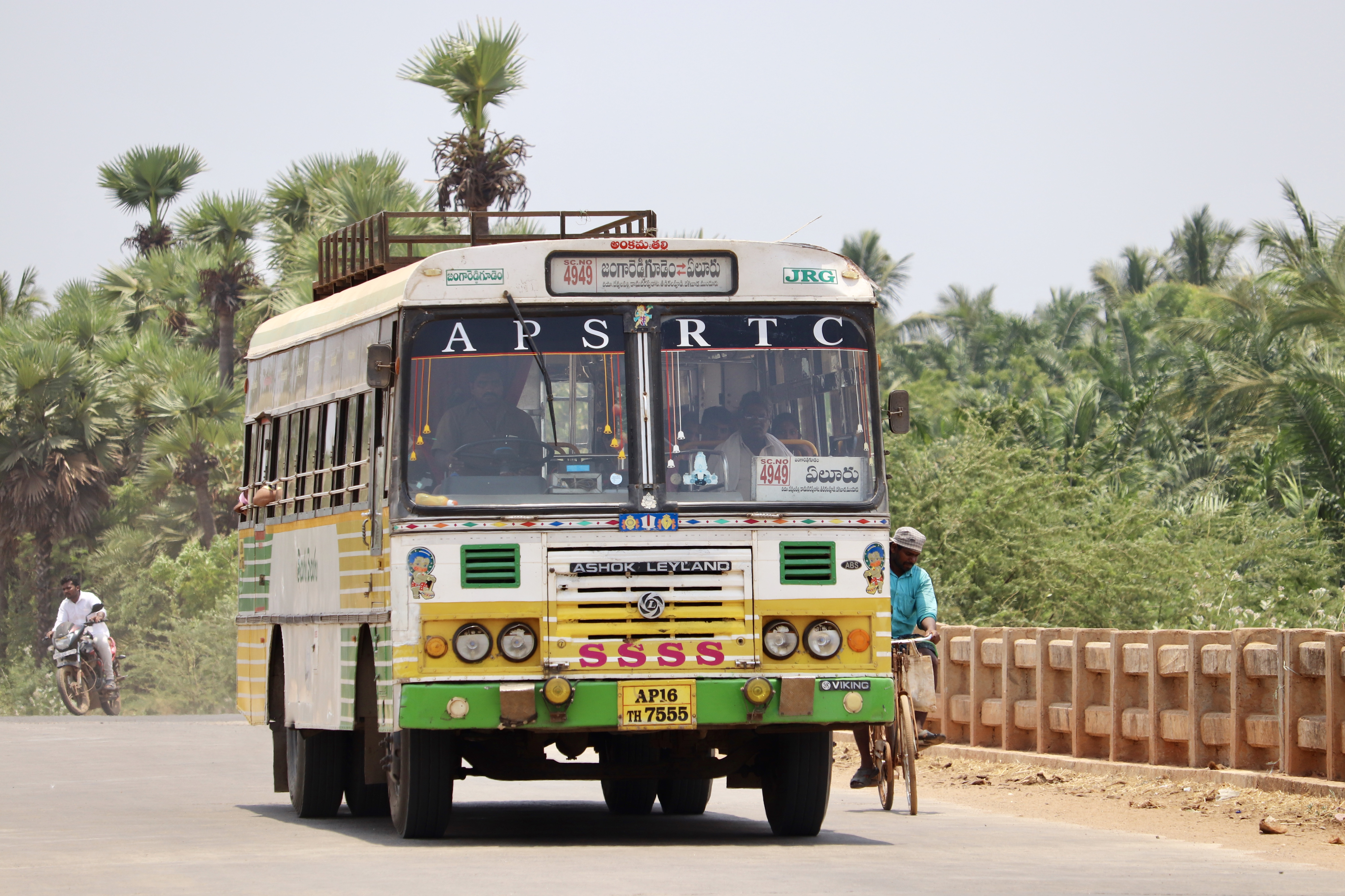 Eluru - Jangareddygudem APSRTC bus near Mundur